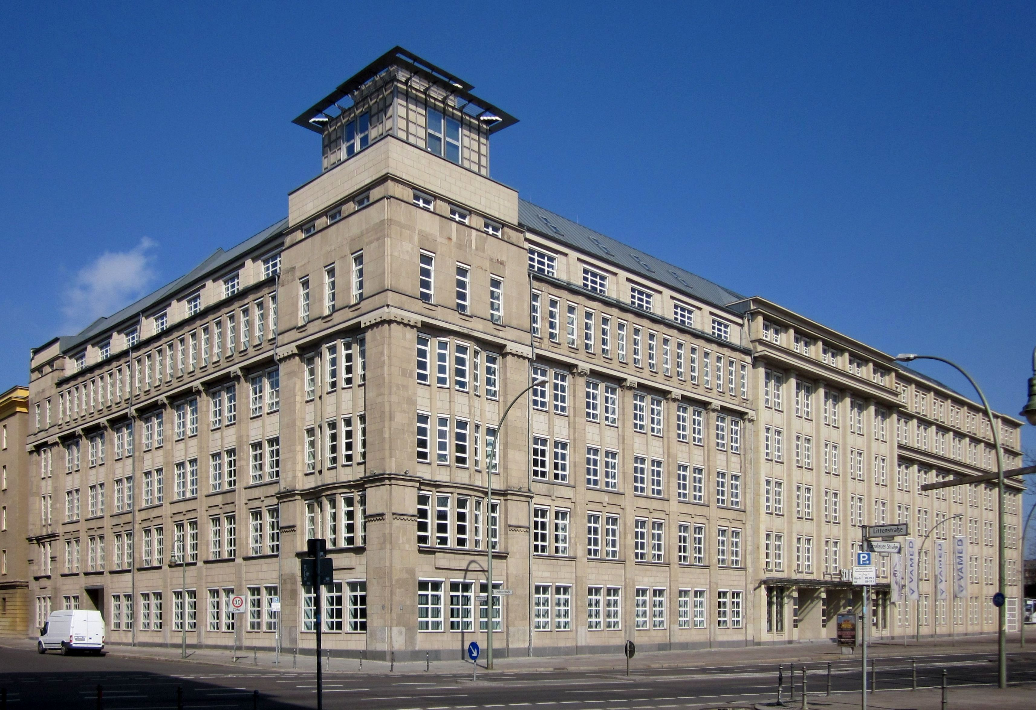 The Schicklerhaus, Schicklerstraße 5-7, in Berlin-Mitte. This commercial building was constructed in 1910.